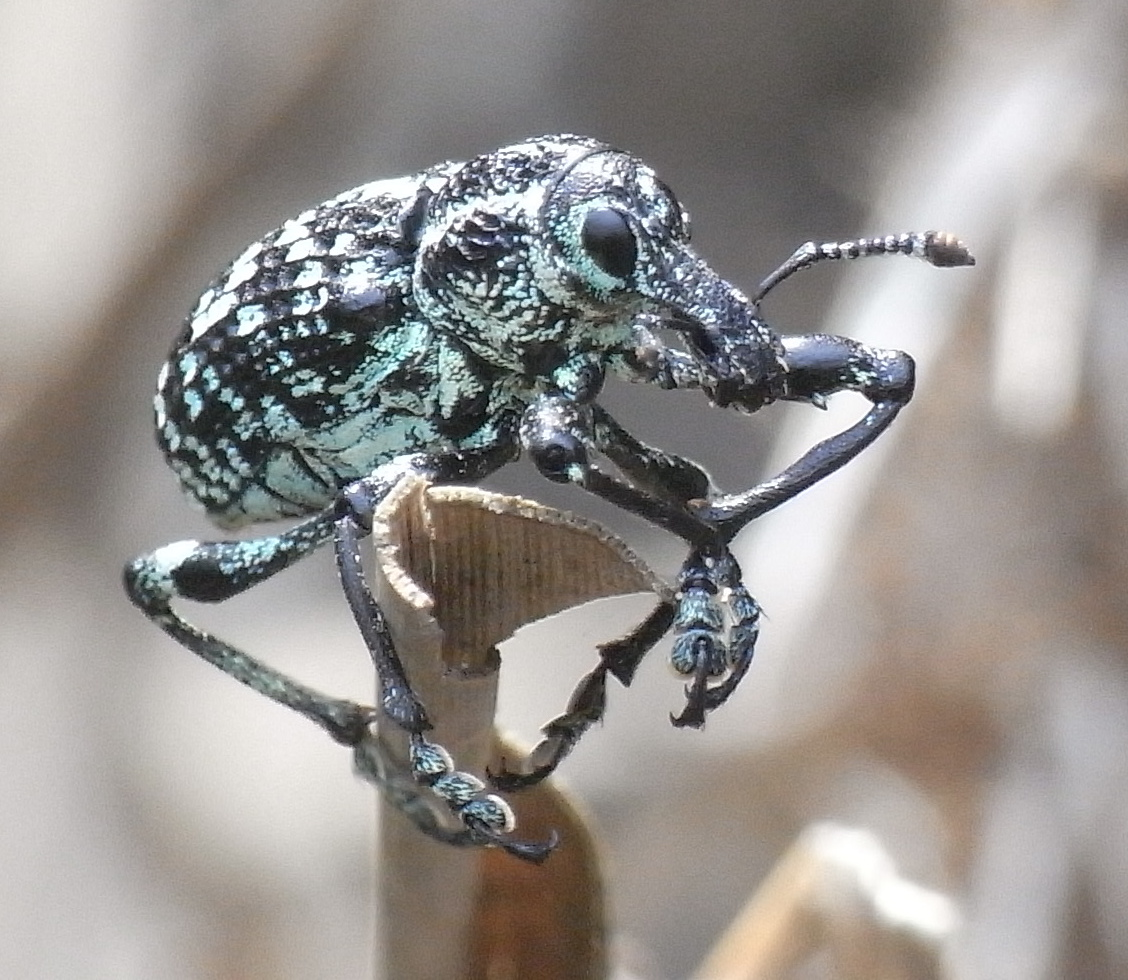 Diamond Weevil (Chrysolopus spectabilis) found at Booti Hill Walking Track, Booti Booti National Park, New South Wales, Australia.